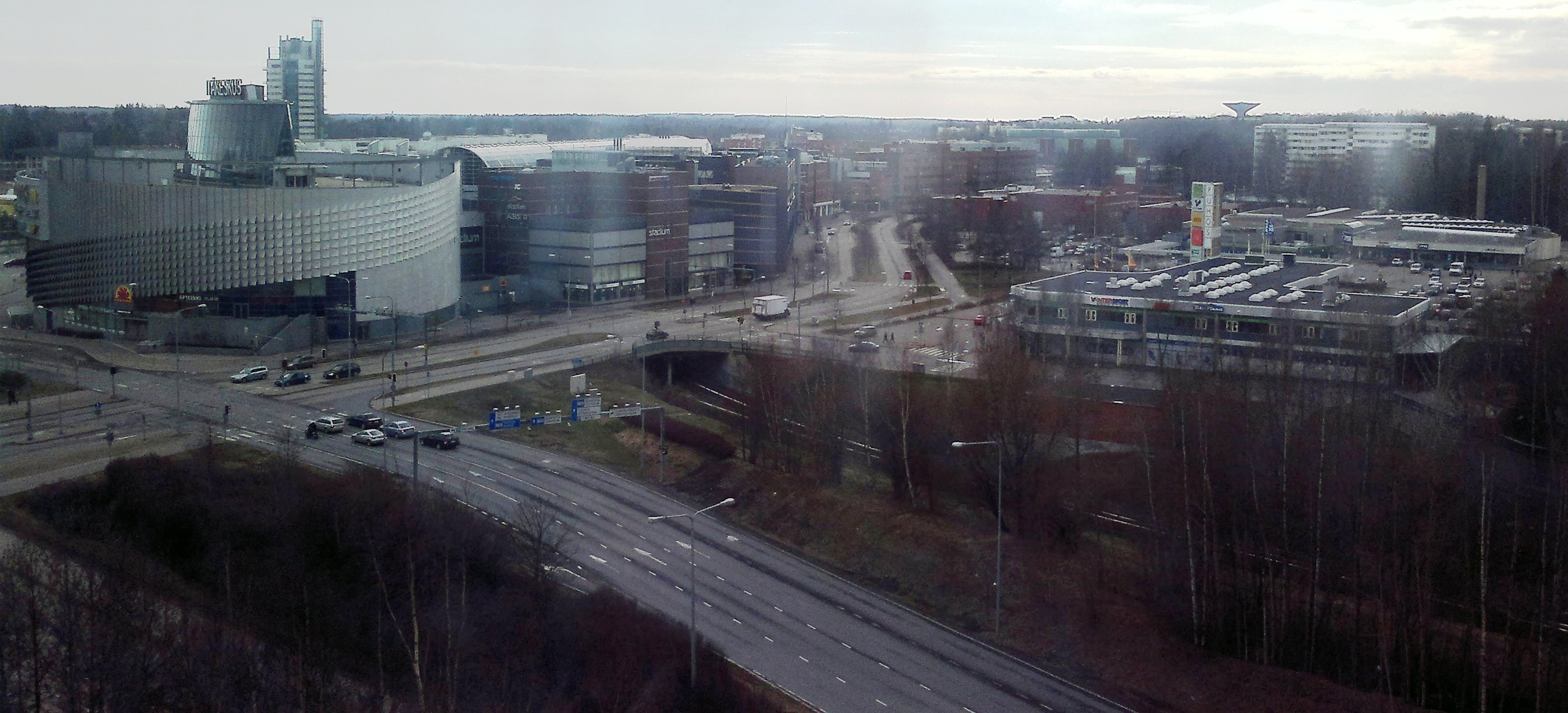 Puotinharju district in Helsinki seen from air. There is shopping mall Itis on the left and little mall Puhos on the right. There is also Maamerkki tower in the background on the left. The road in the foreground is highway named Kehä I (Myllymestarintie) and the road in the middle of the picture is road Turunlinnantie. Roihuvuori water tower can be seen on the horizon on the right side of the picture.